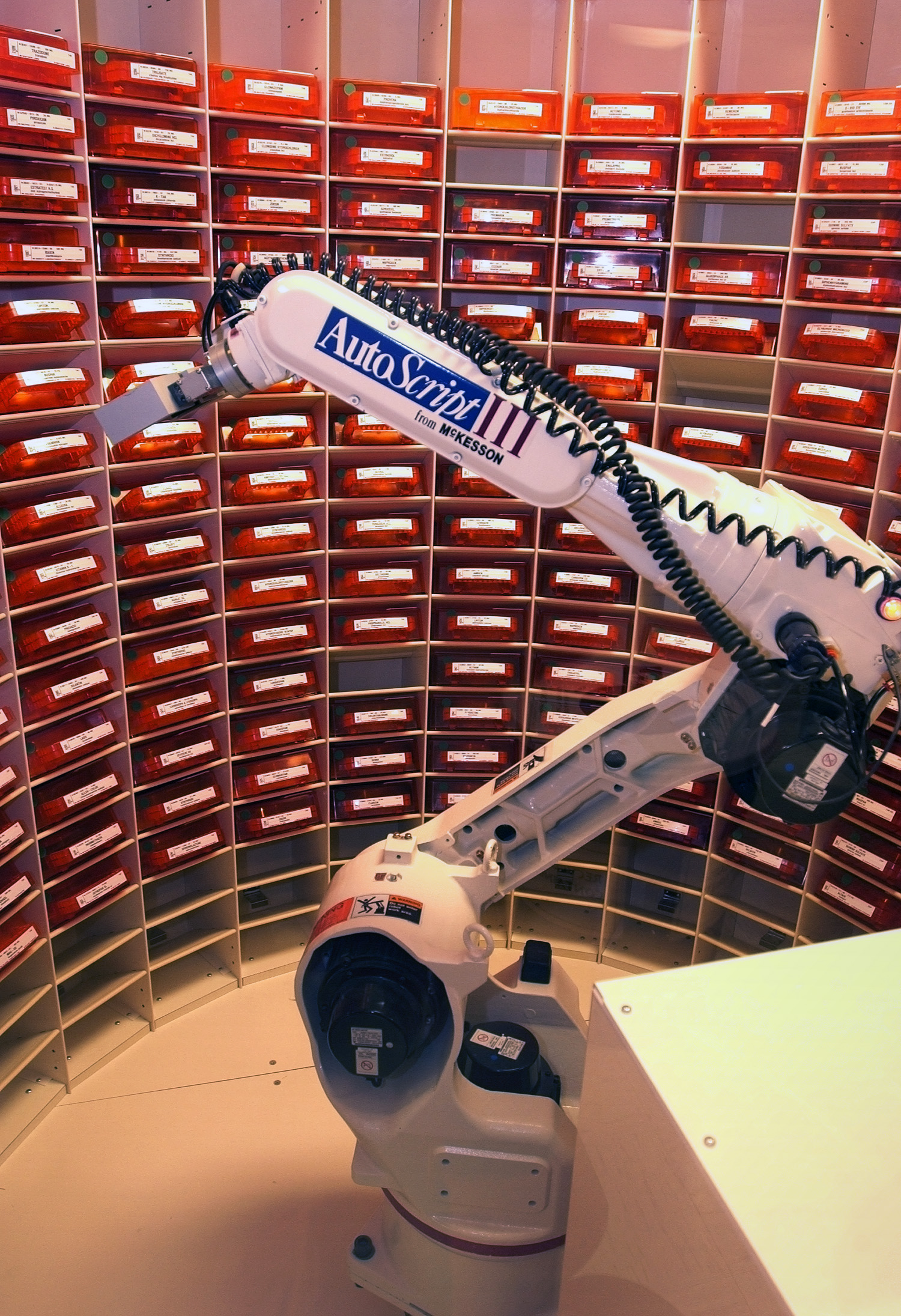 National Naval Medical Center, Bethesda, Md., (Aug. 19, 2003) -- The Autoscript III, a prescription filling robot, picks up a bin of medication at the National Naval Medical Center in Bethesda, Maryland. The robot is one of two used in the hospital pharmacy. U.S. Navy photo by Chief Warrant Officer 4 Seth Rossman. (RELEASED)